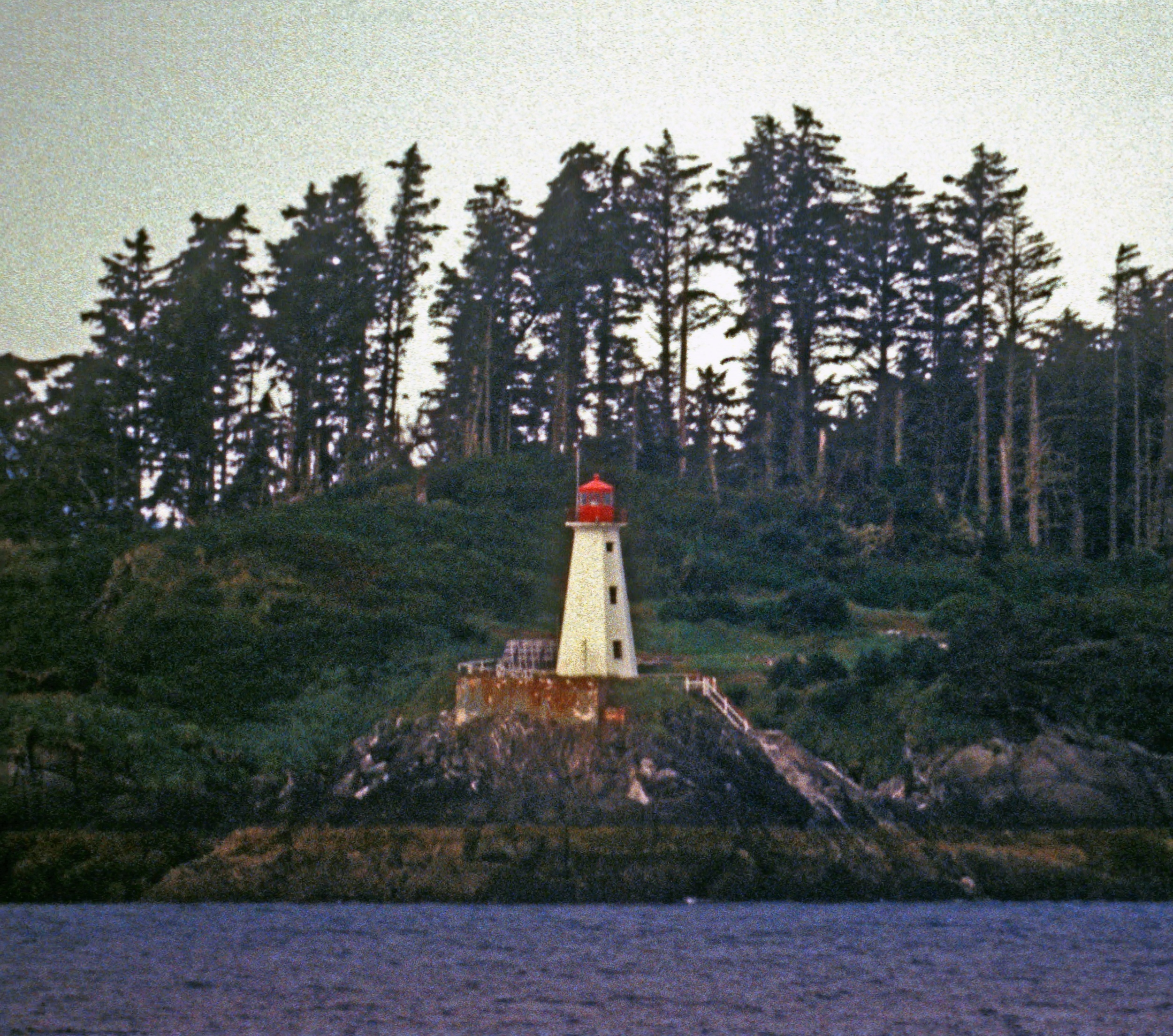 A recrop of a free-use image of the Lucy Island Lighthouse built in 1907